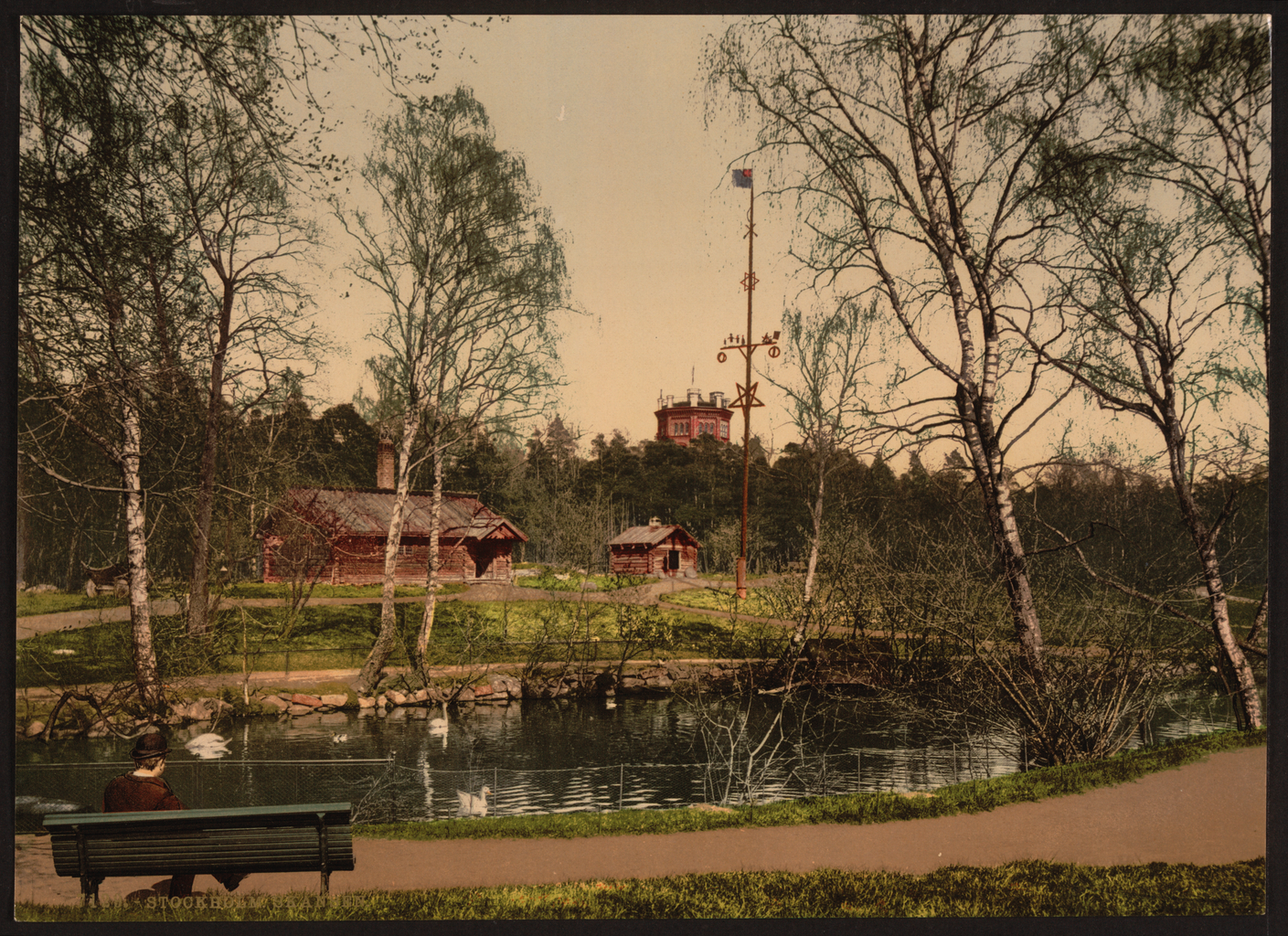 This late 19th-century photochrome print offers a bucolic view of the open-air museum of Skansen on Djurgården Island, a royal park situated within Stockholm. Founded in 1891, Skansen is the oldest such heritage museum in Europe, with traditional Swedish culture and wildlife exhibits, as well as log structures such as the house and barn pictured on the other side of the pond. These buildings, most of which date from the 18th and 19th centuries, were intended to display Sweden's regional diversity and rural traditions at a time of rapid urban expansion. For city-dwellers, Skansen served to reinforce a sense of national identity and to provide a positive impression of Sweden's past, with its sturdy, self-reliant values. The view also shows the top of the brick Bredablick Tower, a 30-meter-tall structure built in 1874-76 (before the founding of Skansen) on a 45-meter hill at the northeastern fringe of Djurgården Island. The tower's builder was the military surgeon F.A. Wästfelt, who was well connected at the Swedish court and wished to create a sanatorium on the island, with a tower as its dominant point. This plan failed, and after the founding of Skansen the tower was renamed for the dwelling of the Norse god Balder. It soon became a popular restaurant and viewing site for all Stockholm. Museums; Zoos